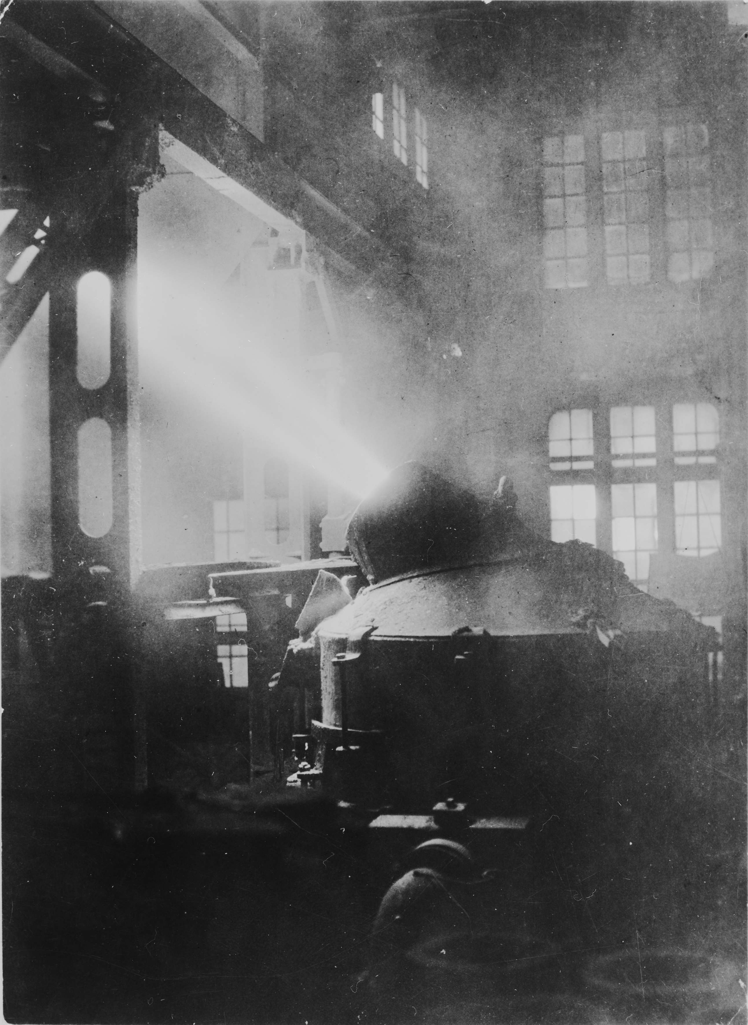 Bessemer converter in action, Sandvik AB steelworks, Sandviken, Sweden. Approx 1915